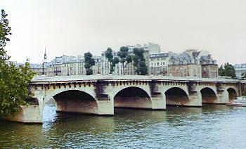 Pont Neuf, Paris, 1985, by Rick Dikeman